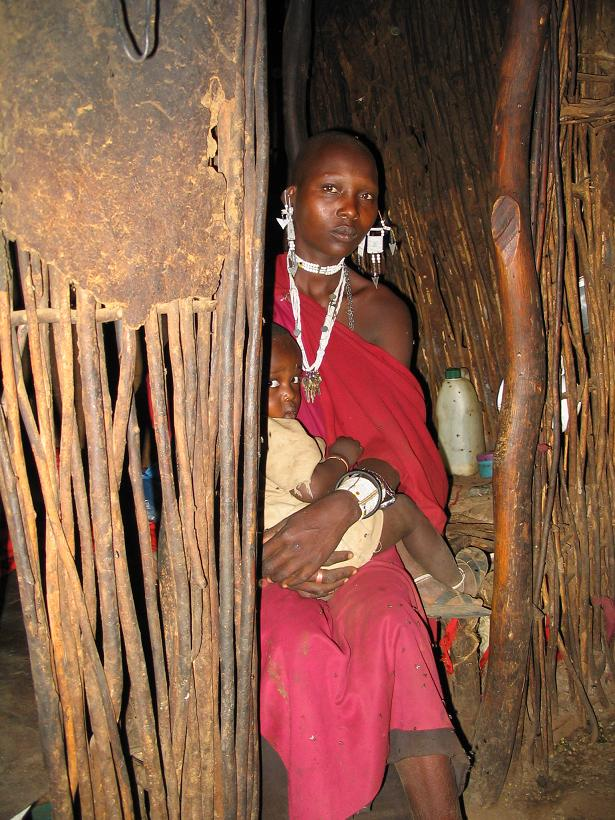 Maasai woman with child in North Tanzania